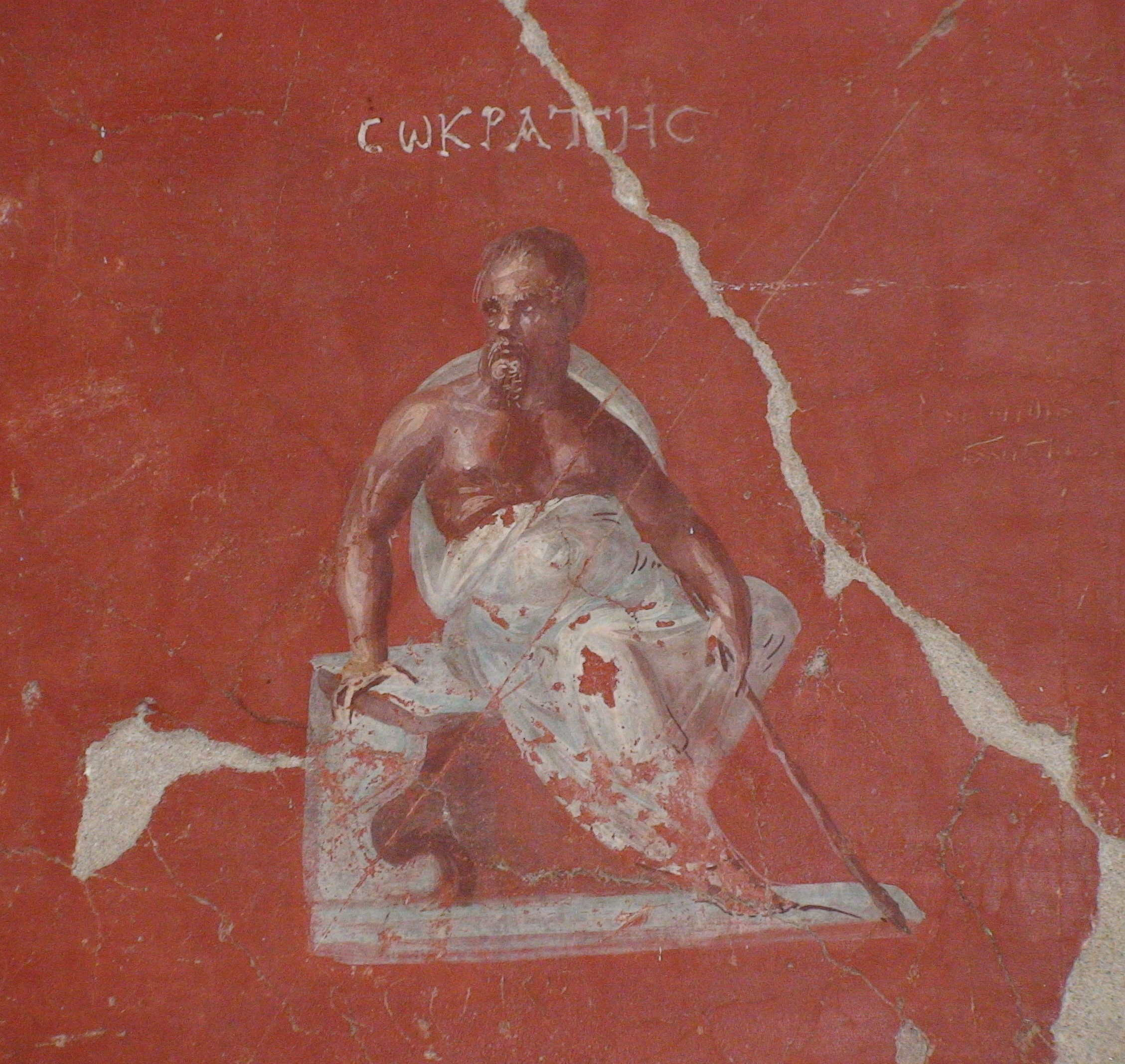 Wall painting at a house depicting Socrates, 1st–5th century CE. Museum of Ephesus, Efes, Turkey.